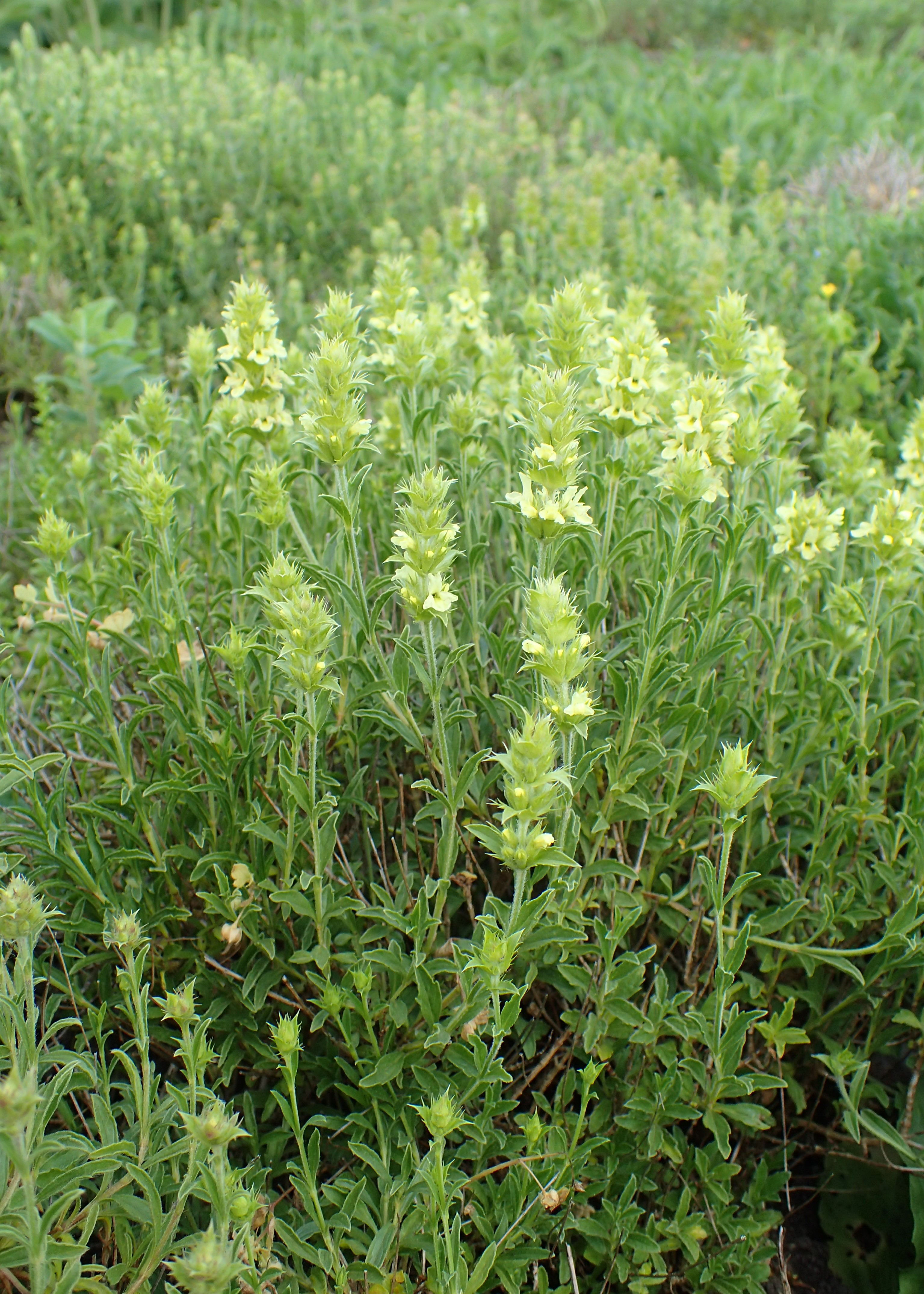 Sideritis hyssopifolia in the Botanischer Garten, Berlin-Dahlem